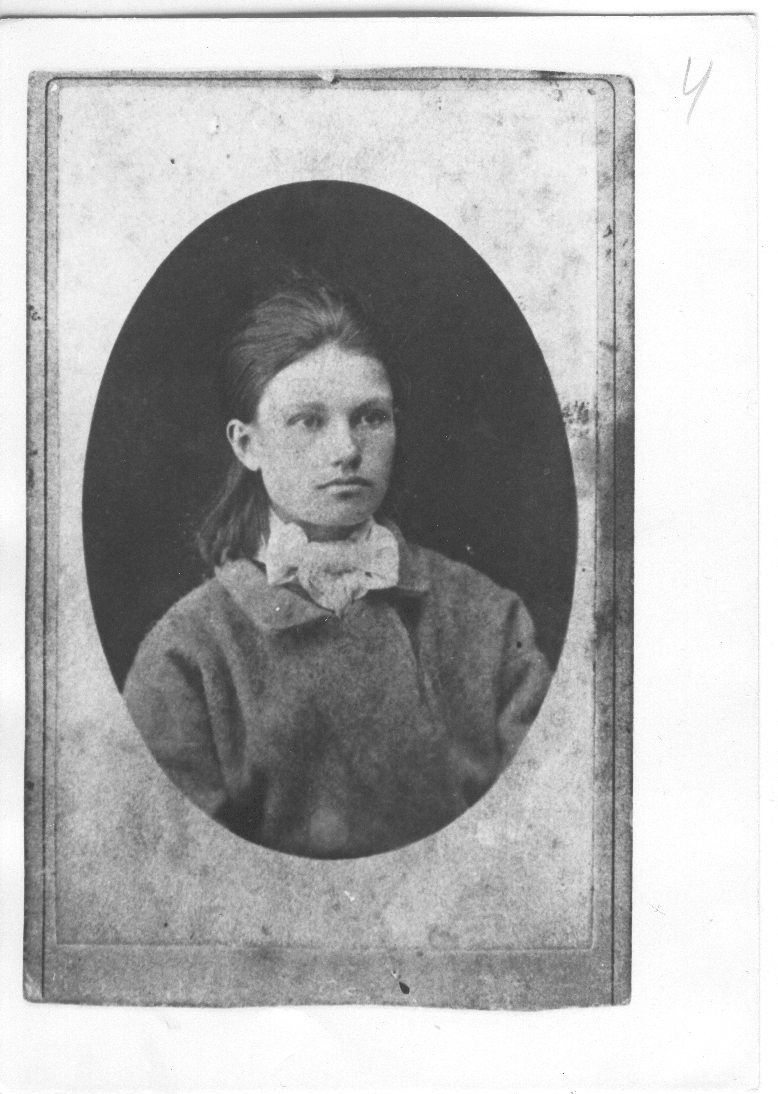 Sofia Bogomolets as a prisoner of Lukianivska jail in Kiev. Jan. 1881